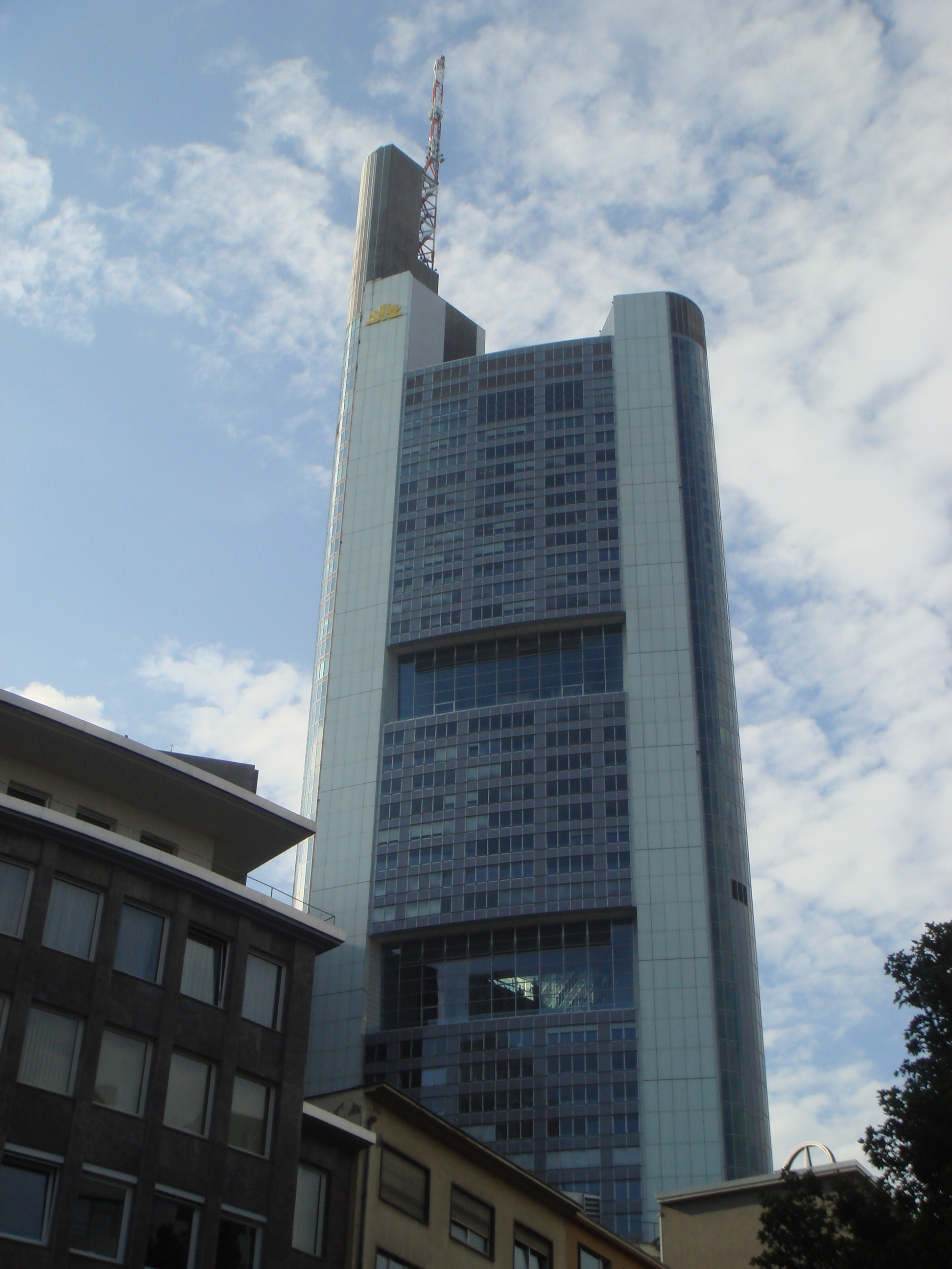 The Commerzbank Tower in Frankfurt am Main, Germany